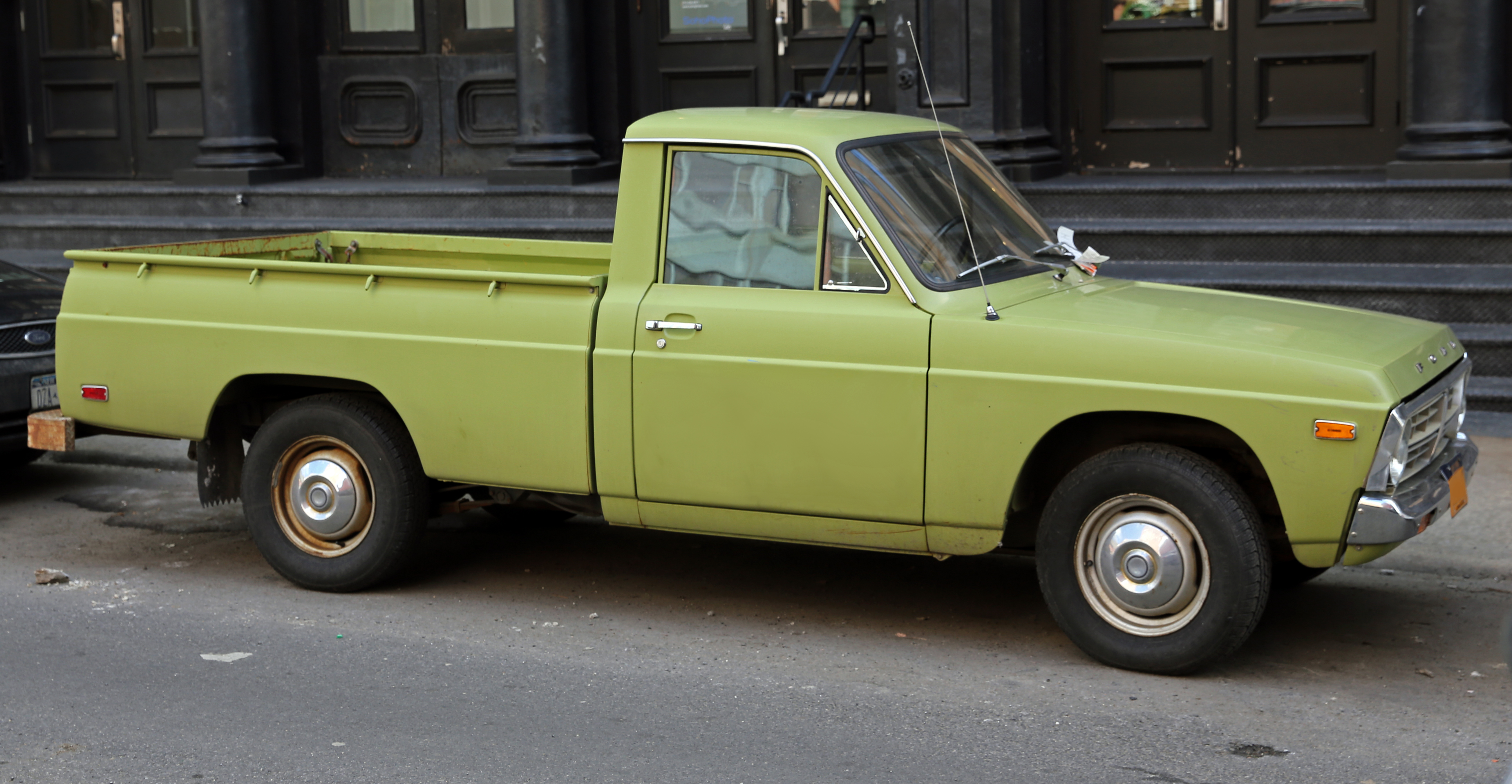 1975 Ford Courier (Mazda B1800 for North America), an unexpected sight in TriBeCa, NYC.